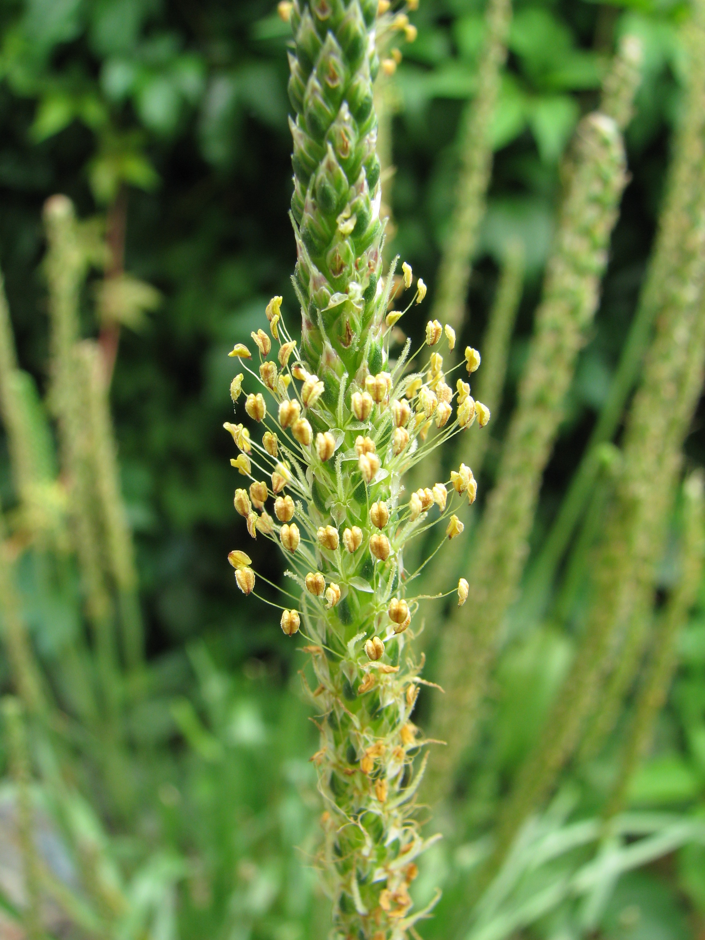 Goose tongue Plantago maritima inflorescence, plant cultivated in Wrocław University Botanical Garden, Wrocław, Poland.